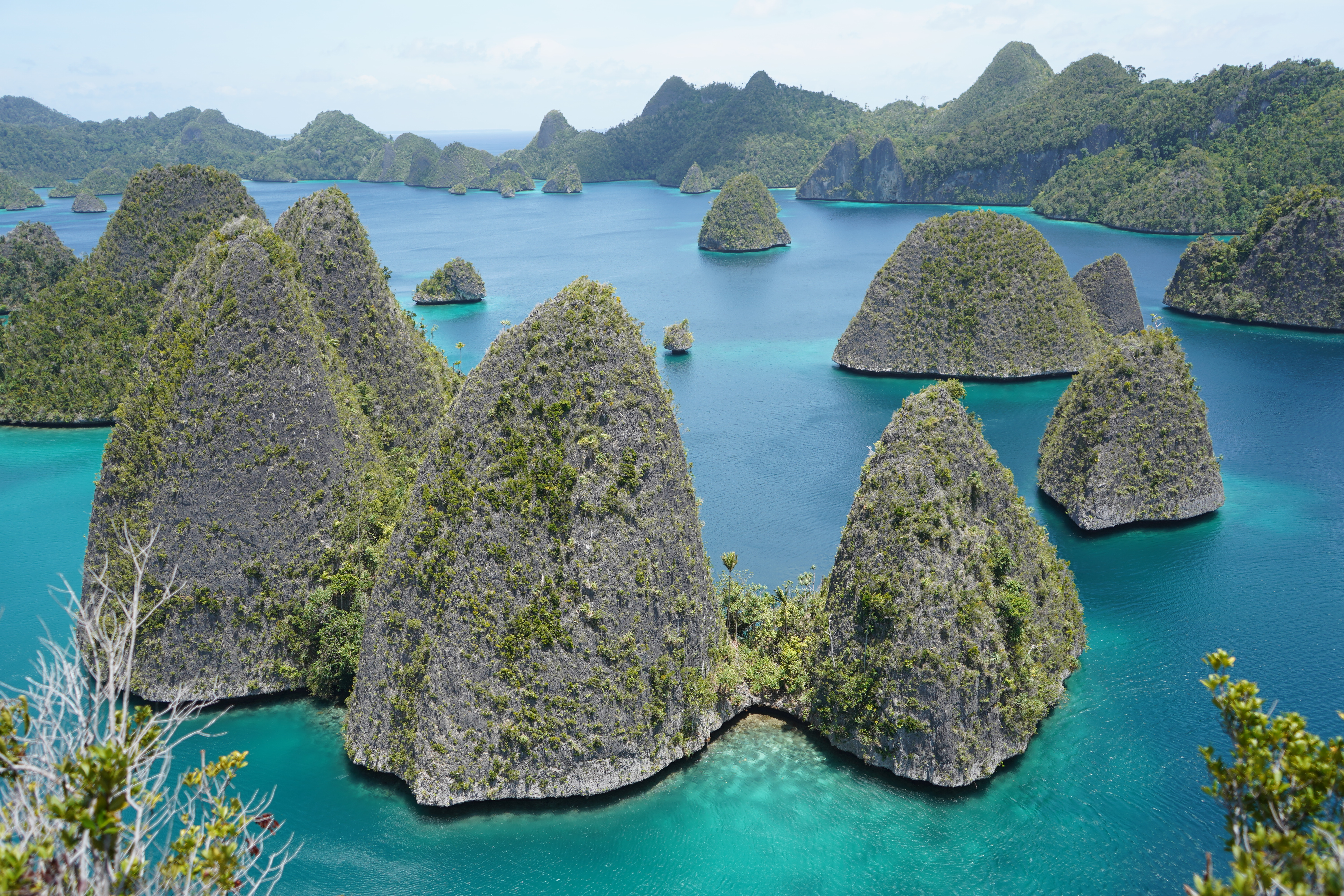 a group of karst hills on the oceam of wajag, the archipelago of the island of western papua